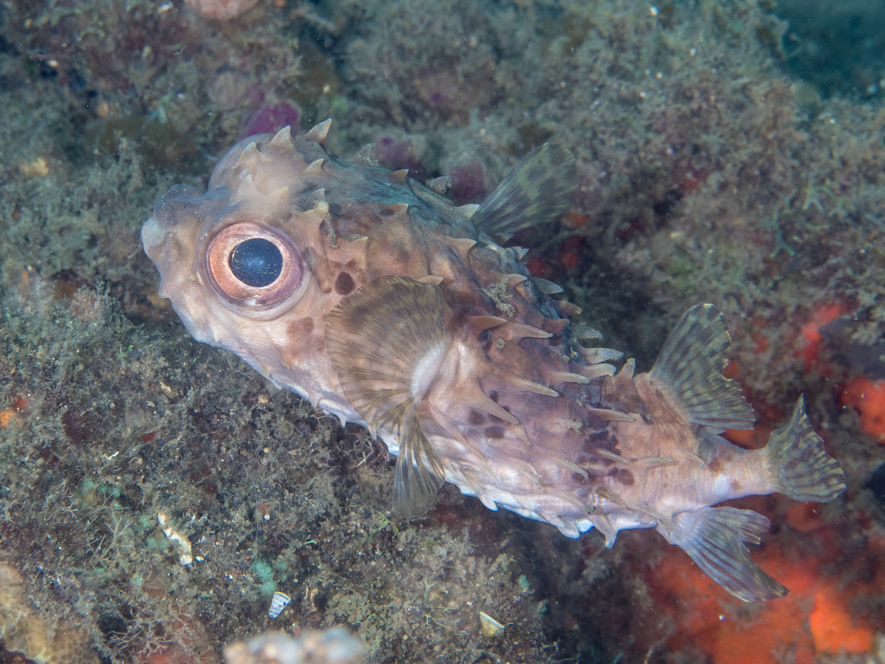 Lembeh, Indonesia - Birdbeak burrfish (Cyclichthys orbicularis)